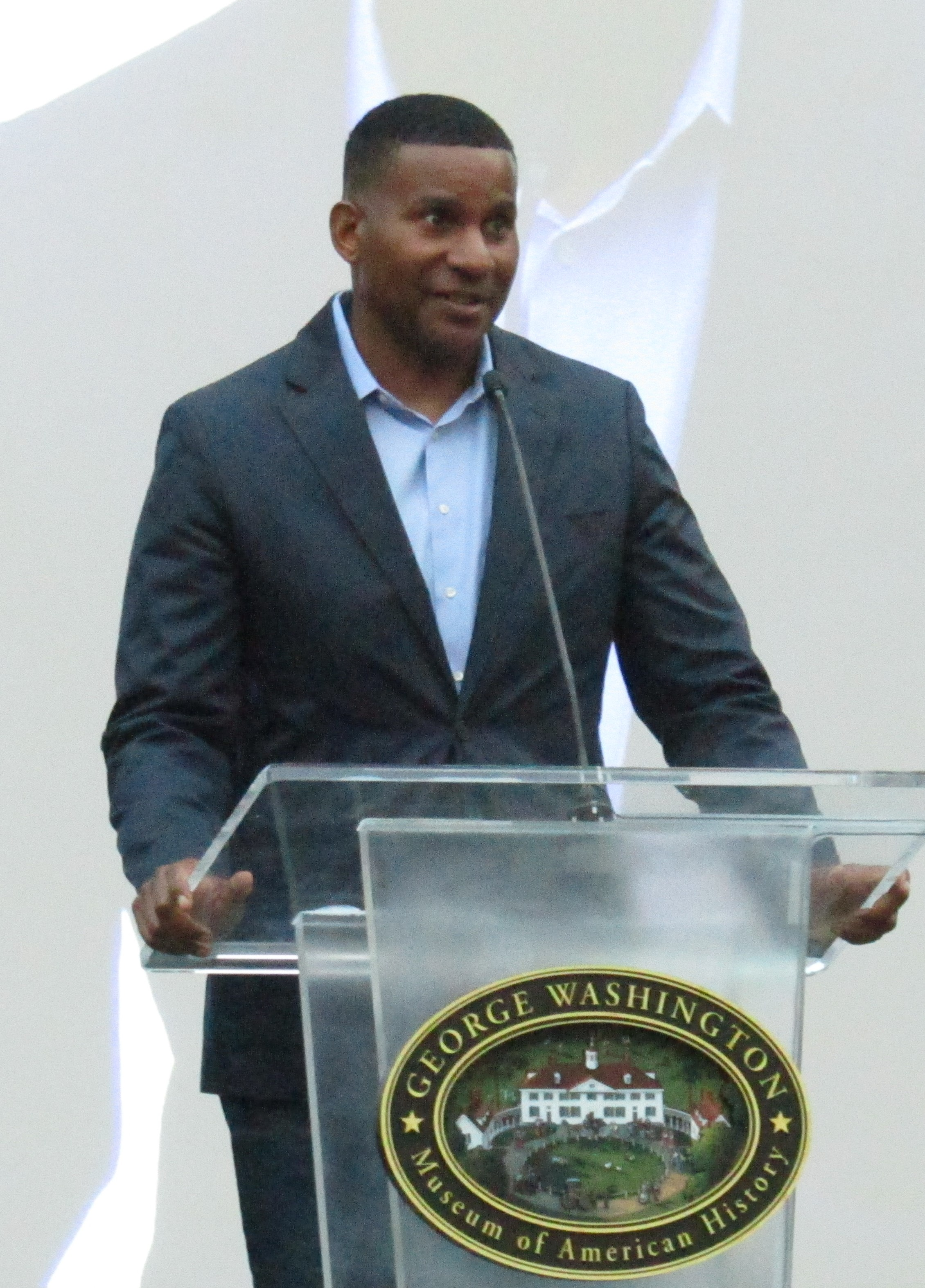 Former Utah Sen. Al Jackson speaking at the announcement ceremony for the George Washington Museum of American History.